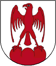 Coat of arms of Montfaucon, Canton of Jura, SwitzerlandEsperanto: Blazono de Montfaucon, Ĵuraso, Svislando